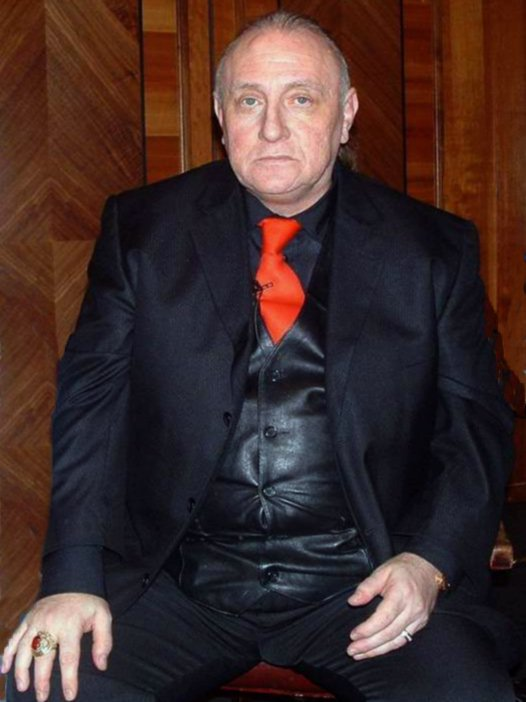 Richard Bandler in a NLP seminar in London sept. 2007